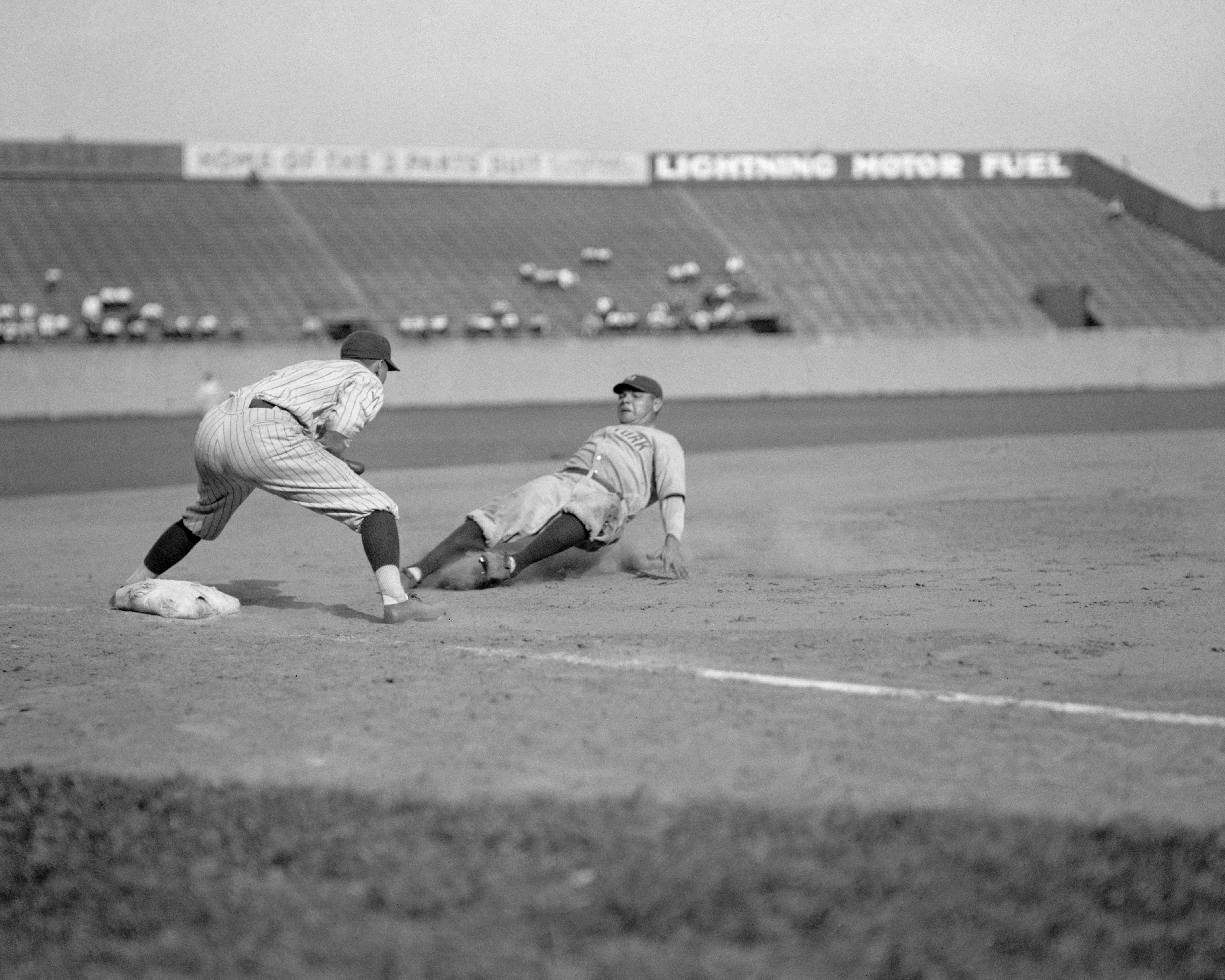 Title: Yankees Babe Ruth safe at third in fourth inning on Bob Meusel's fly out. Senators third baseman is Ossie Bluege. Senators won 8-1""